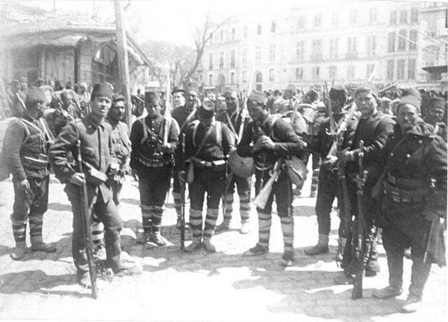 Soldiers of the Action Army at Taksim